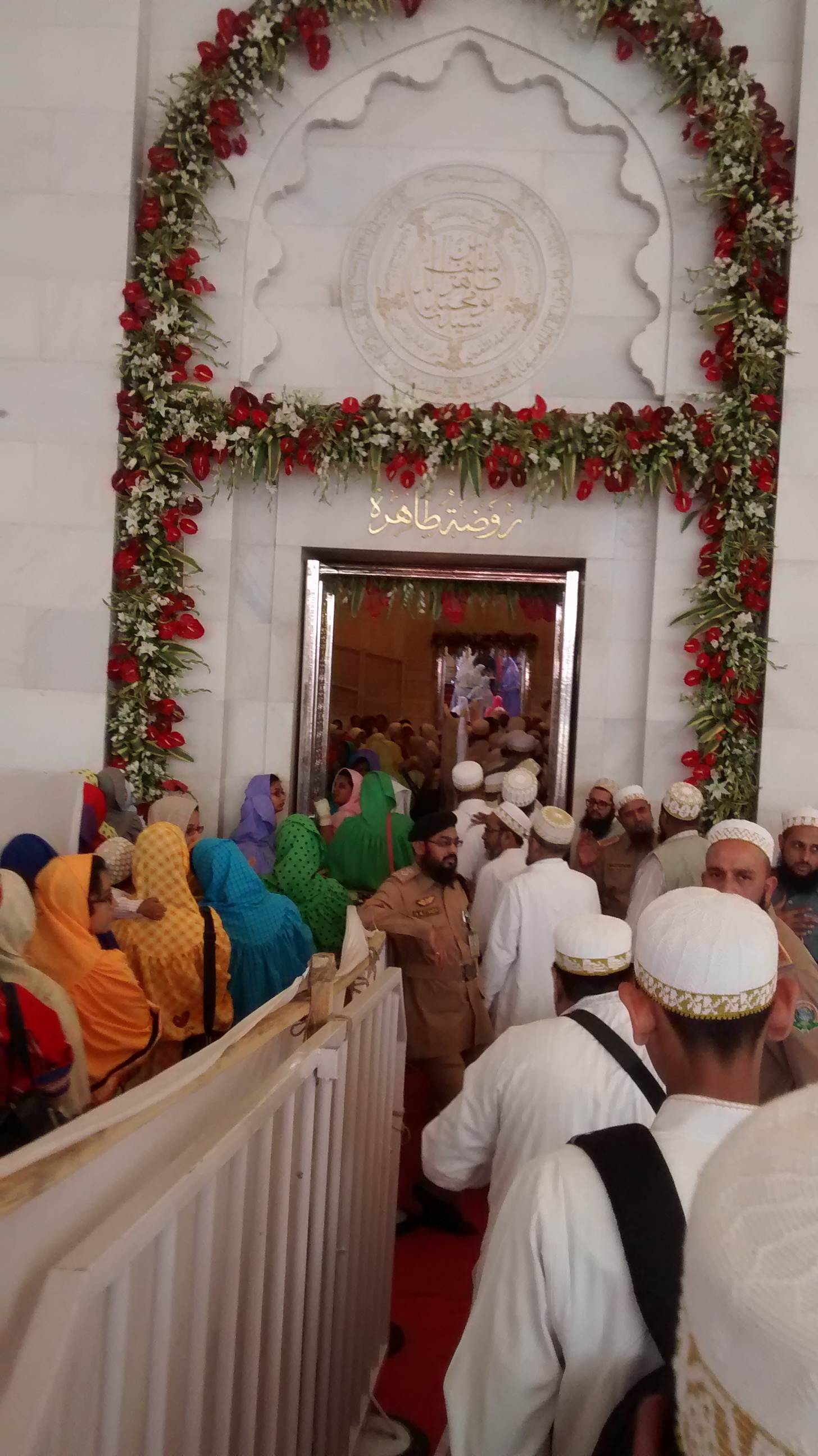 People offering tribute at Raudat Tahera on occassion of firsrt Death annivarsary (2015) of syedna Mohammad Burhanuddin cremated here.